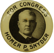 Campaign button of former congressman Homer P. Snyder of New York.